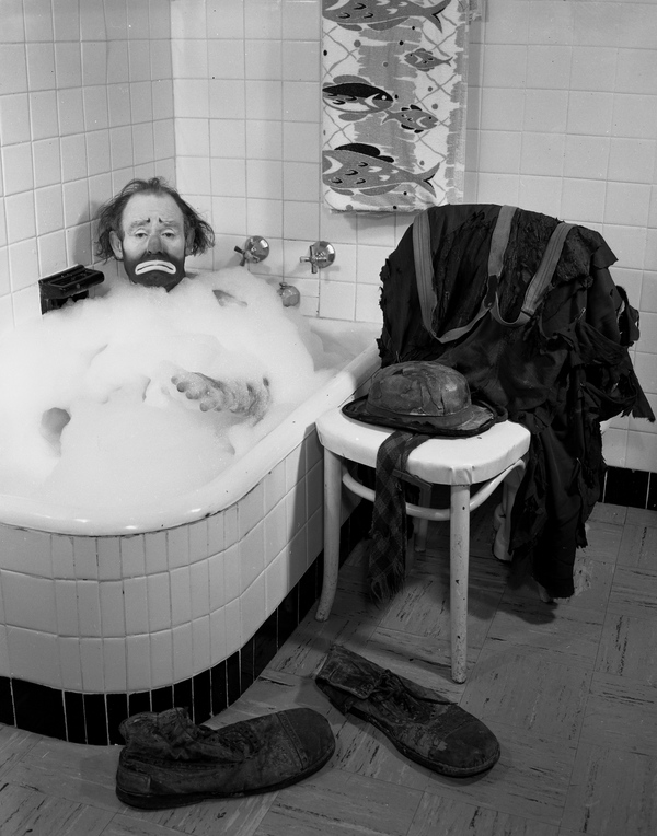 Local call number: JJS0711 Title: Ringling Circus clown Emmett Kelly in a bubble bath: Sarasota, Florida Date: ca. 1955 General note: Photo taken as a favor to Kelly, who wanted the image for his Christmas card. Joe's wife, Lois Foley Steinmetz, was crouched down out of sight behind the chair that held Kelly's clothing, with an egg beater in her hand. After every shot Joe took, Lois would leap out of hiding, use the egg beater to increase the foam in the tub, and conceal herself once again. Visit the Florida Memory blog to learn more about this photograph as told by Joe and Lois's daughter, Lois Duncan. Physical descrip: 1 photonegative - b&w - 5 x 4 in. Series Title: Joseph Janney Steinmetz Collection Biography note: Joseph Janney Steinmetz was a world-renowned commercial photographer whose images appeared in such publications as the Saturday Evening Post, Life, Look, Time, Holiday, Collier's, and Town & Country. His work has been referred to as "an American social history," which documented diverse scenes of American life from affluent northeasterners to middle-class Floridians. Steinmetz moved from Philadelphia, Pennsylvania to Sarasota, Florida in 1941. Repository: State Library and Archives of Florida, 500 S. Bronough St., Tallahassee, FL 32399-0250 USA. Contact: 850.245.6700. Persistent URL